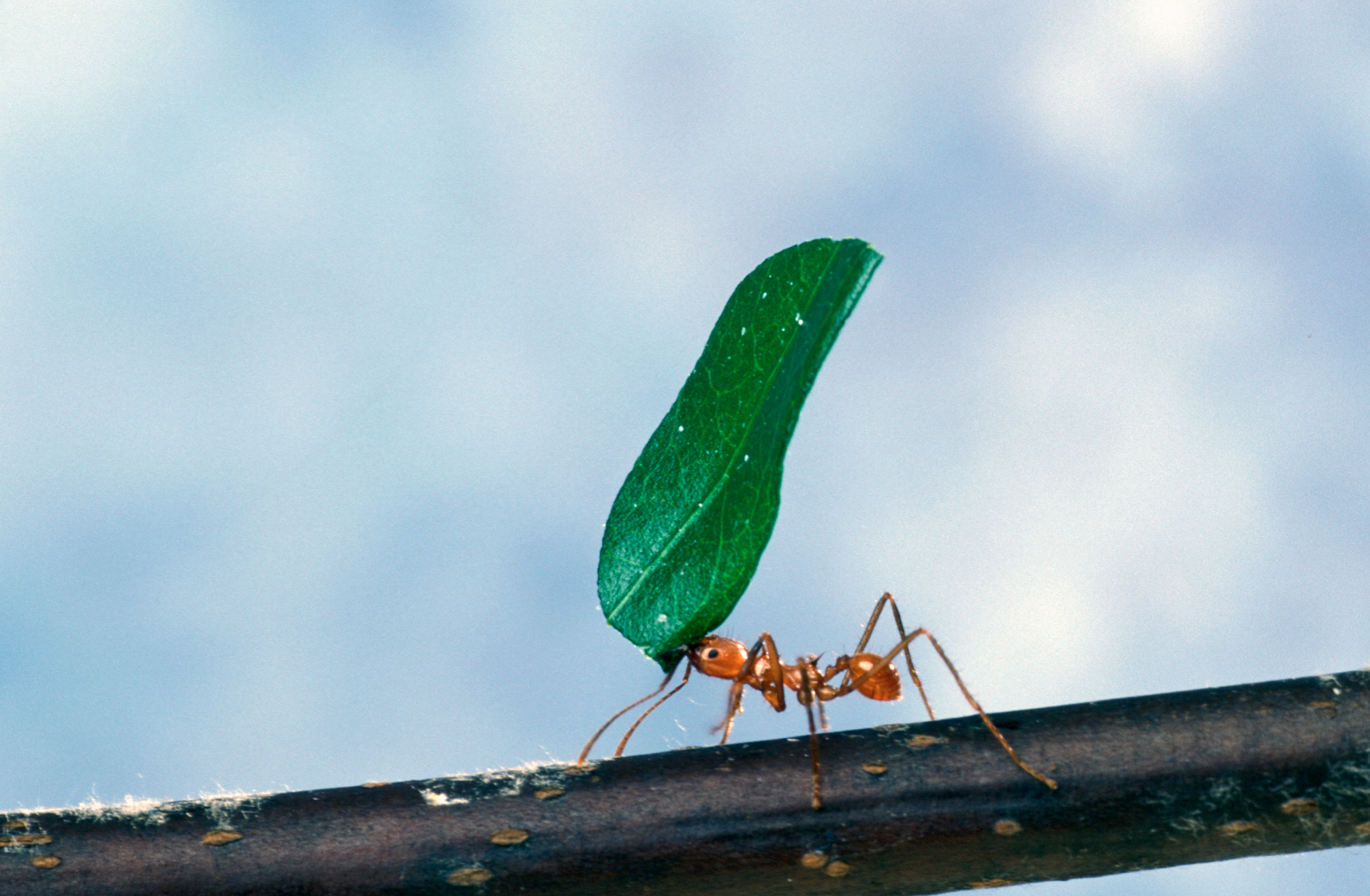 Leaf-cutter ants can take over when predator pressure is removed